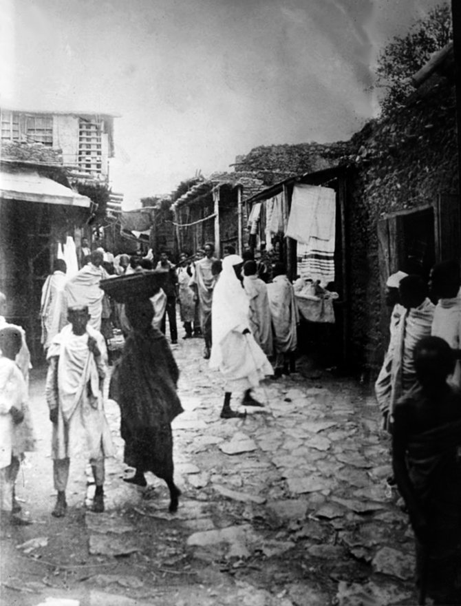 Street scene: Harar-High St. leading to market, Abyssinia. Title from unverified data on caption card or negative sleeve.